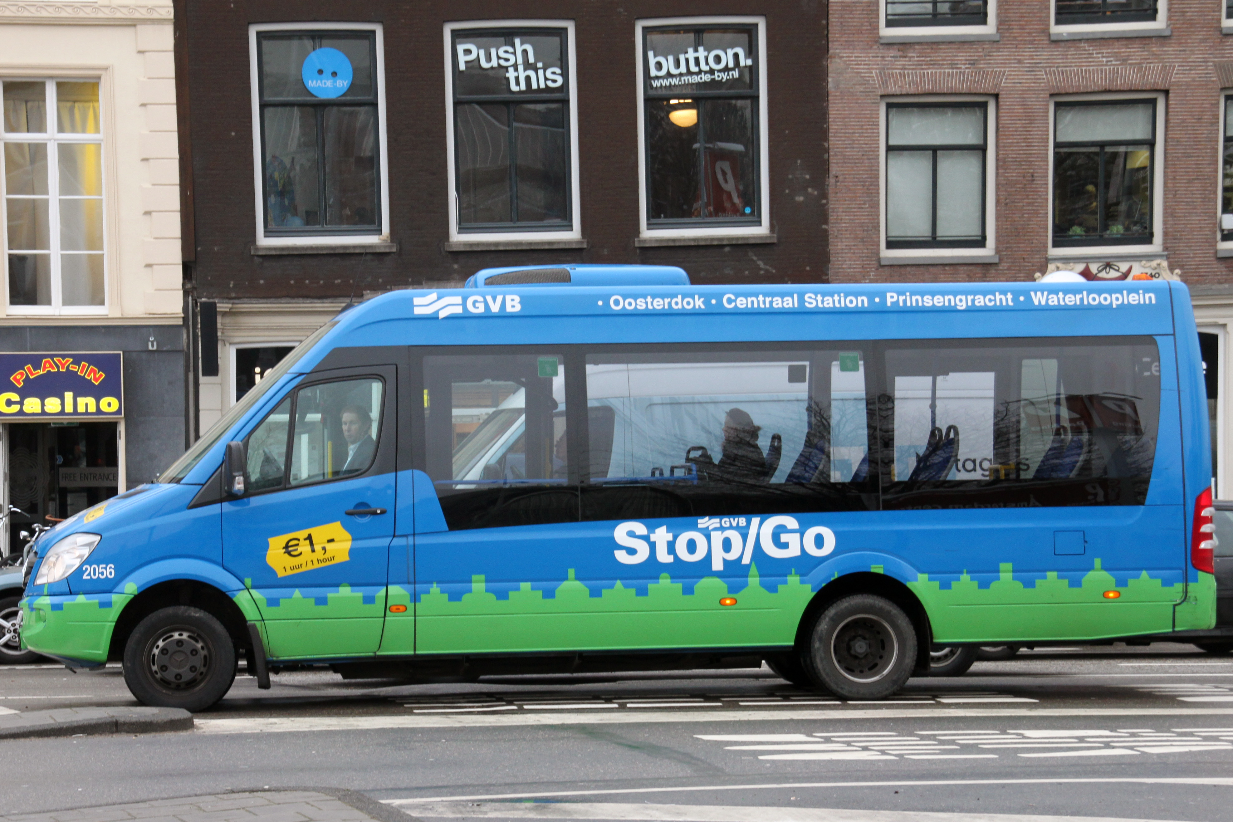 Mercedes-Benz Sprinter City 65 bus (#2056) in Amsterdam, Netherlands. Built 2008, Gemeentevervoerbedrijf (GVB) operator.